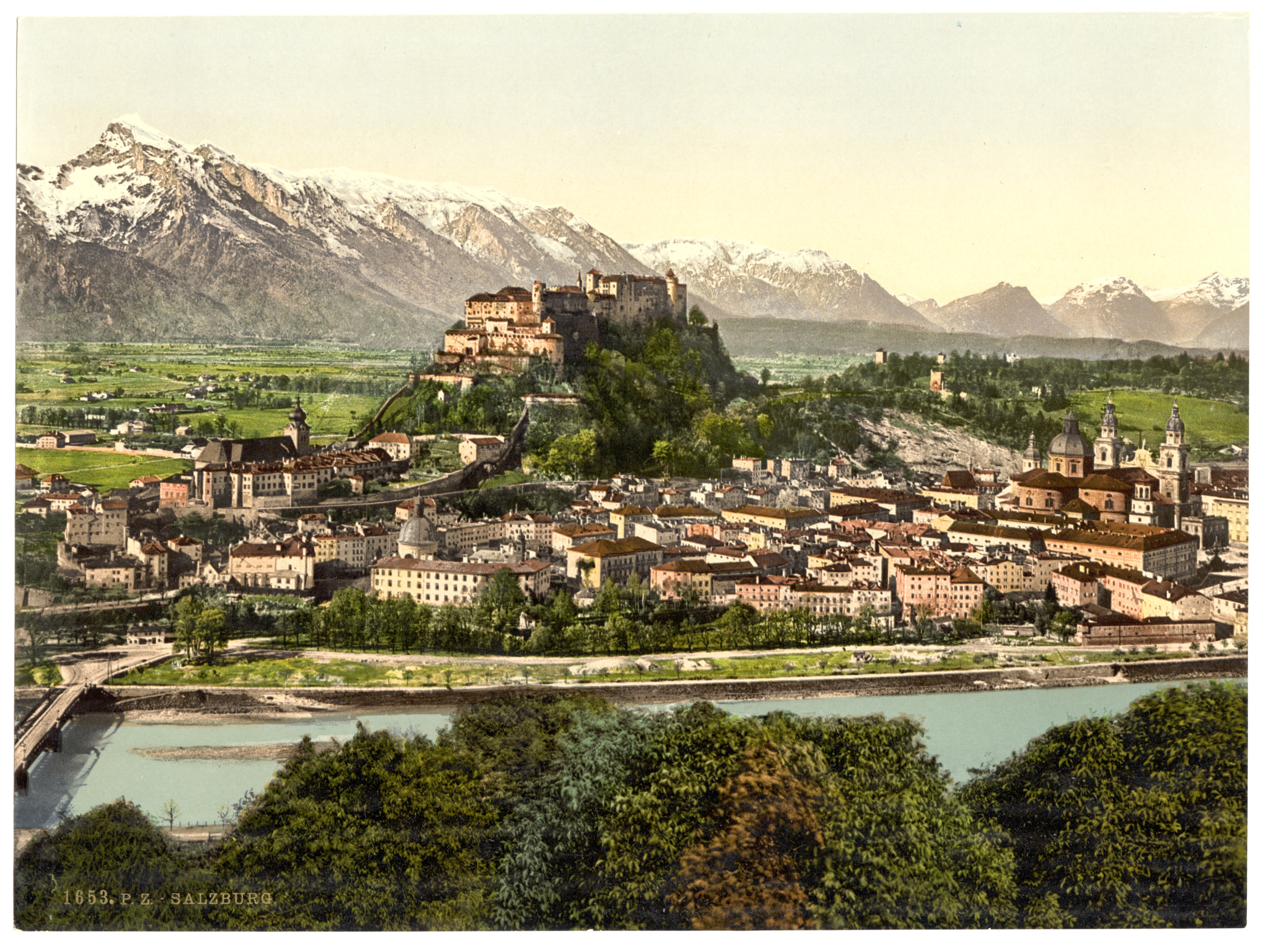 Forms part of: Views of the Austro-Hungarian Empire in the Photochrom print collection.; Title from the Detroit Publishing Co., Catalogue J-foreign section, Detroit, Mich. : Detroit Publishing Company, 1905.; Print no. "1653".